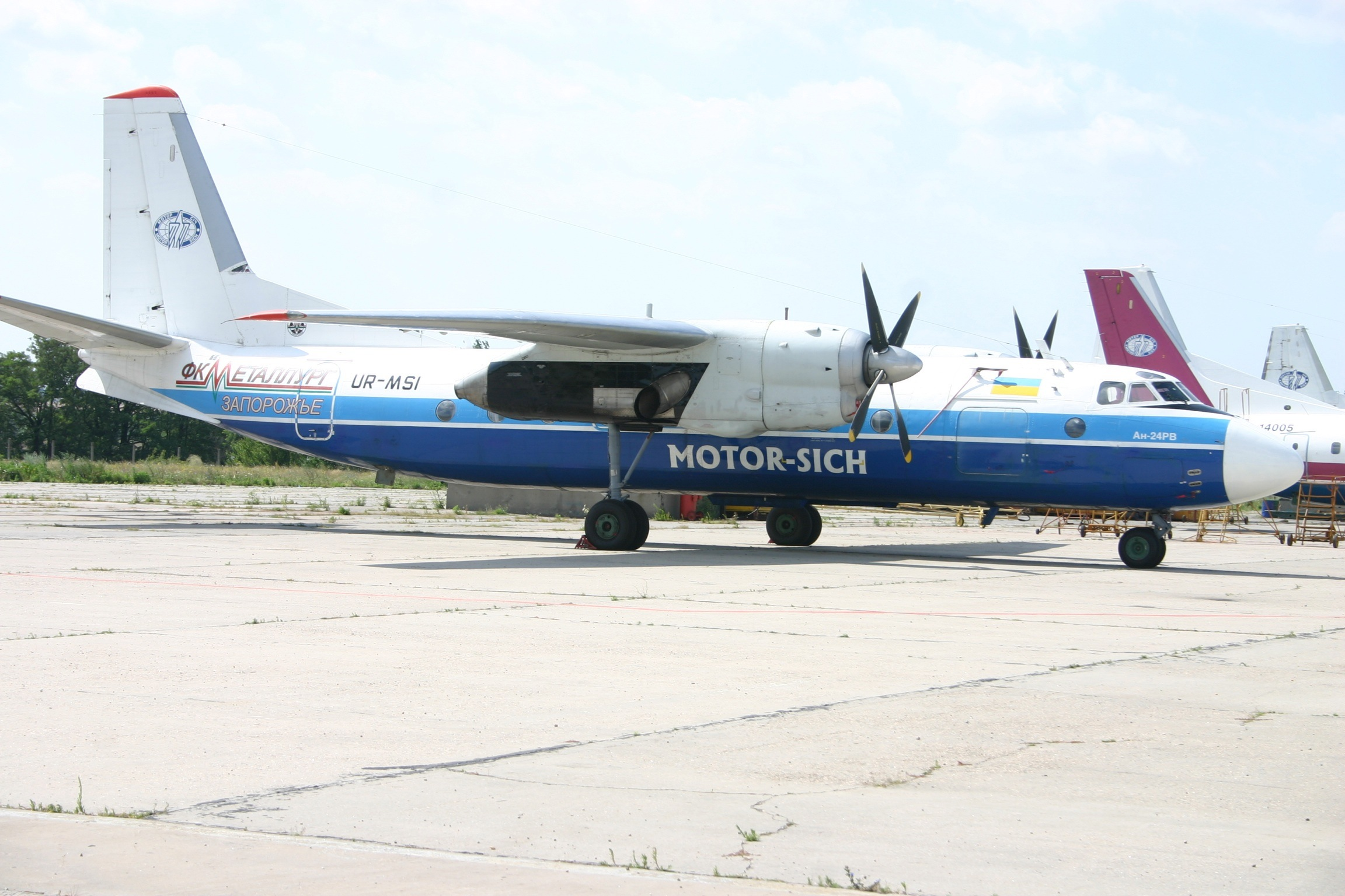 At Zaporizhia International Airport